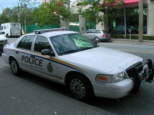 Translink Police Car - Greater Vancouver Transportation Authority